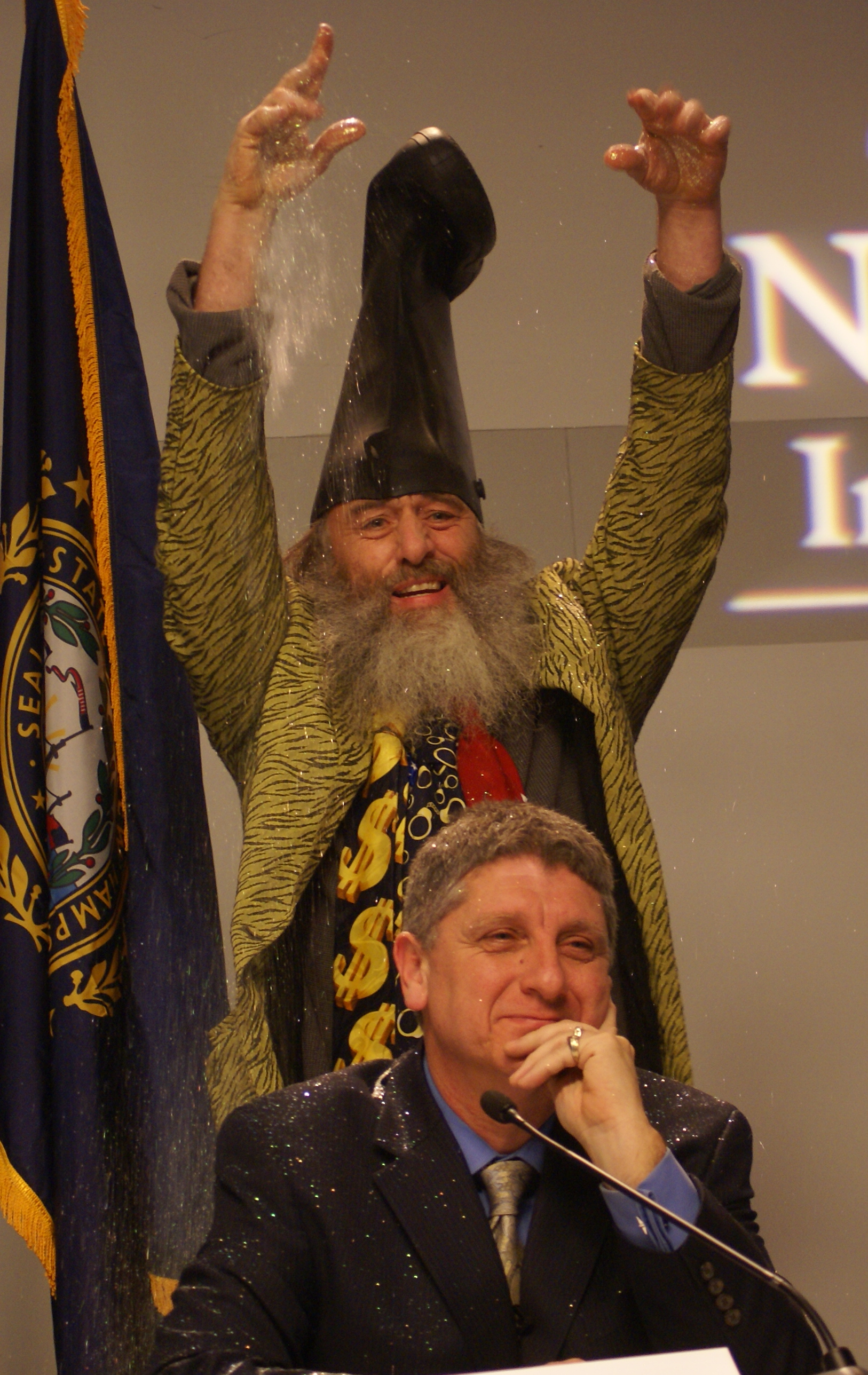 Vermin Supreme glitterbombs Randall Terry during the New Hampshire Institute of Politics' "lesser known candidates forum" at St. Anselm's College, Manchester, New Hampshire, USA